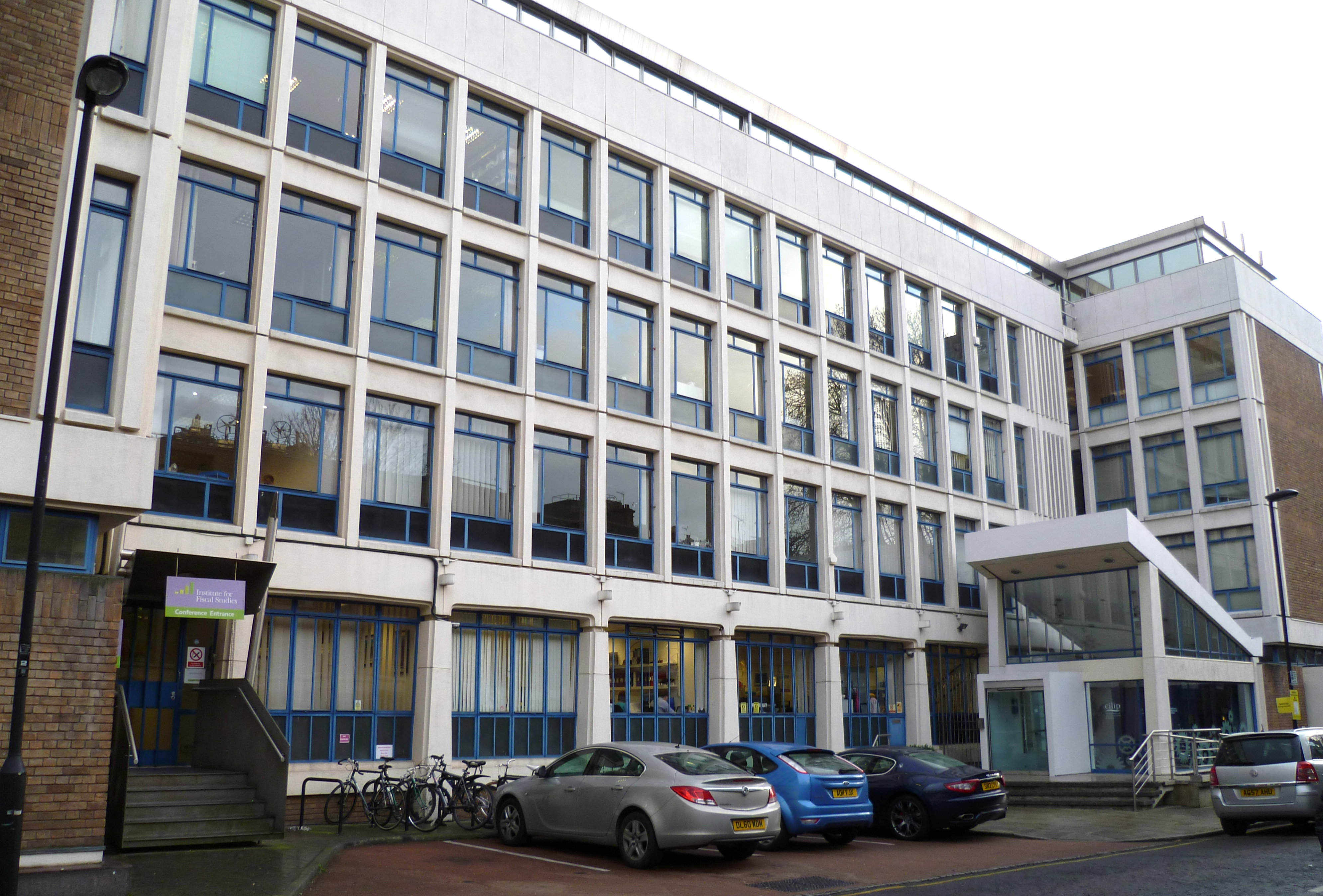 London